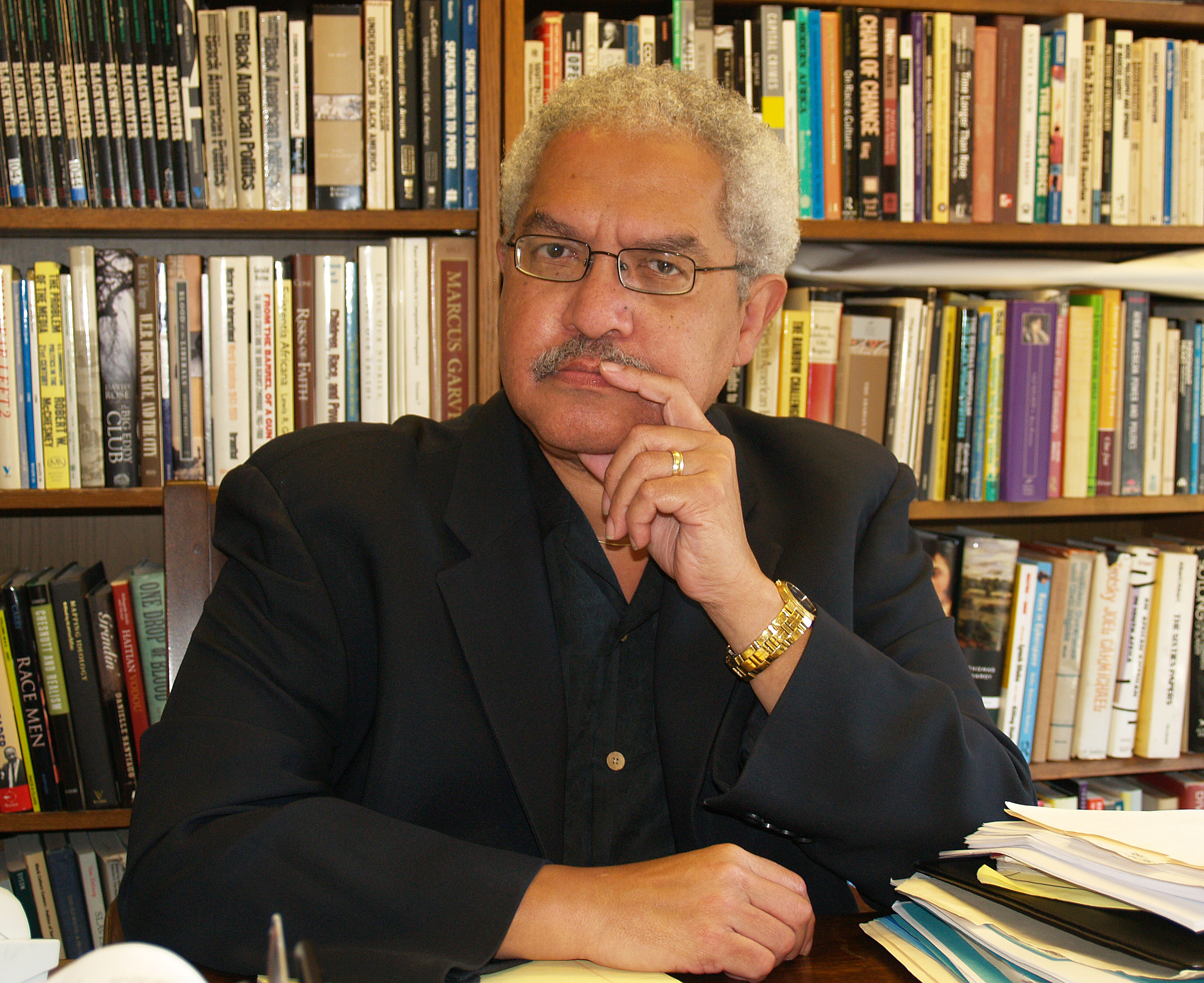 Manning Marableby David Shankbone